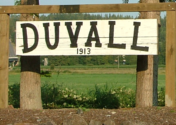 Picture of the Duvall, Washington.